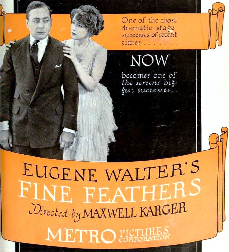 Ad for the American film Fine Feathers (1921) with Eugene Pallette and Claire Whitney, on the front cover of the June 12, 1921 Film Daily.